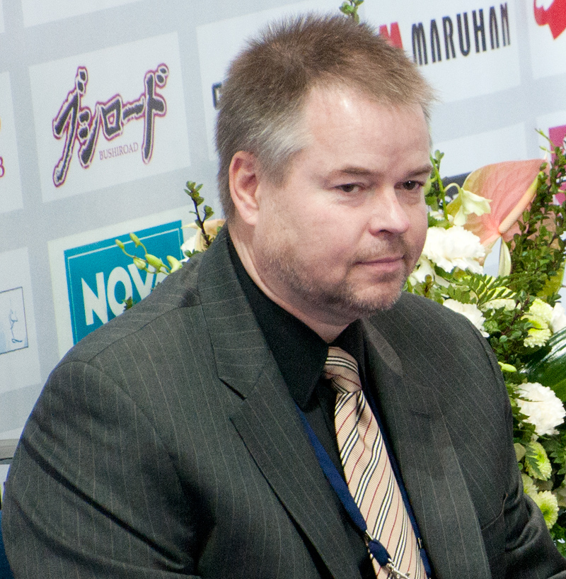 2011 Cup of Russia, short program.